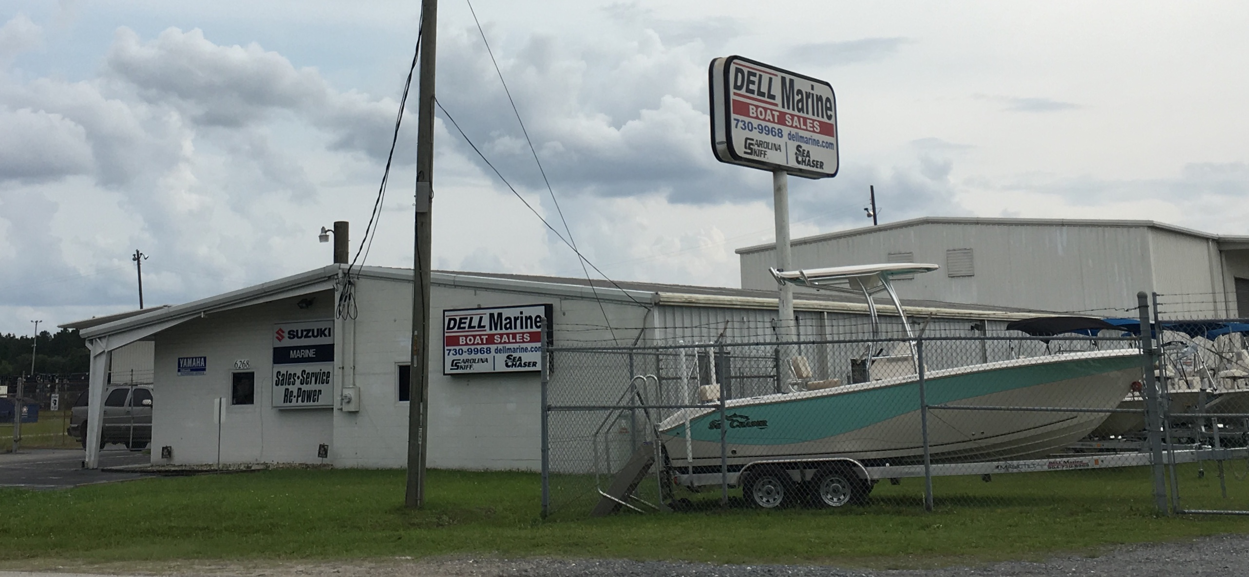 Dell Marine Boat Sales in Jacksonville, Florida.